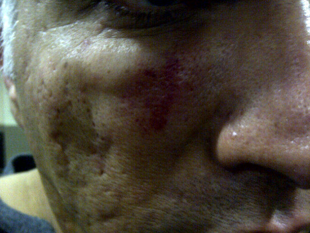 Bruising on Nabeel Rajab face after getting beaten by police